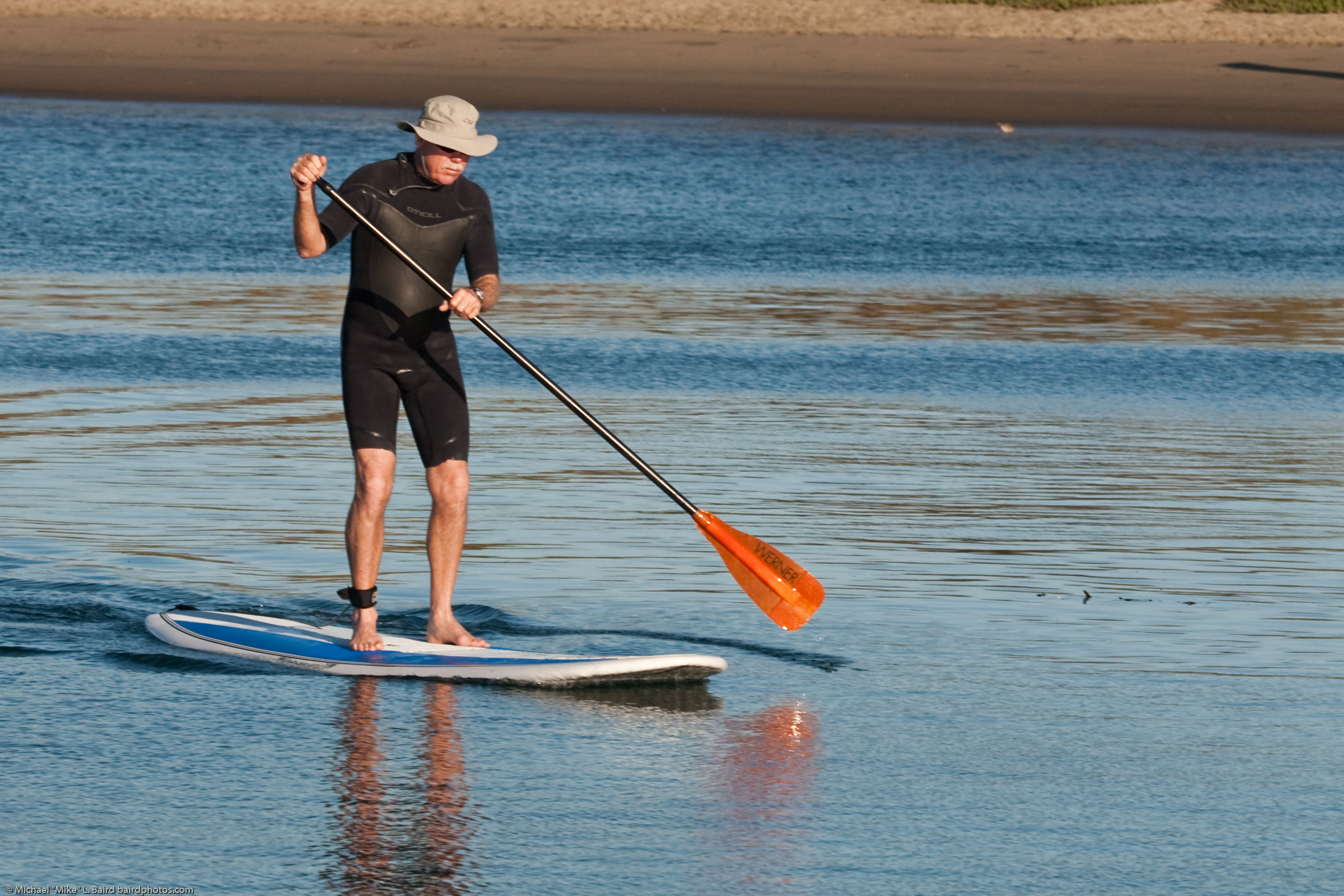 Original description from flickr: "Stand Up Paddlesurfer (SUP) man in harbor of Morro Bay, CA, 17 Jan. 2009, during the 2009 Morro Bay Annual Bird Festival, Dos Osos Subsea Tours Birding Boat Photo Tour led by Mike Baird. Photo by Michael "Mike" L. Baird , Canon 1D Mark III w/ Canon EF 100-400mm f4.5-5.6L IS USM Telephoto Zoom Lens with circular polarizer and handheld."